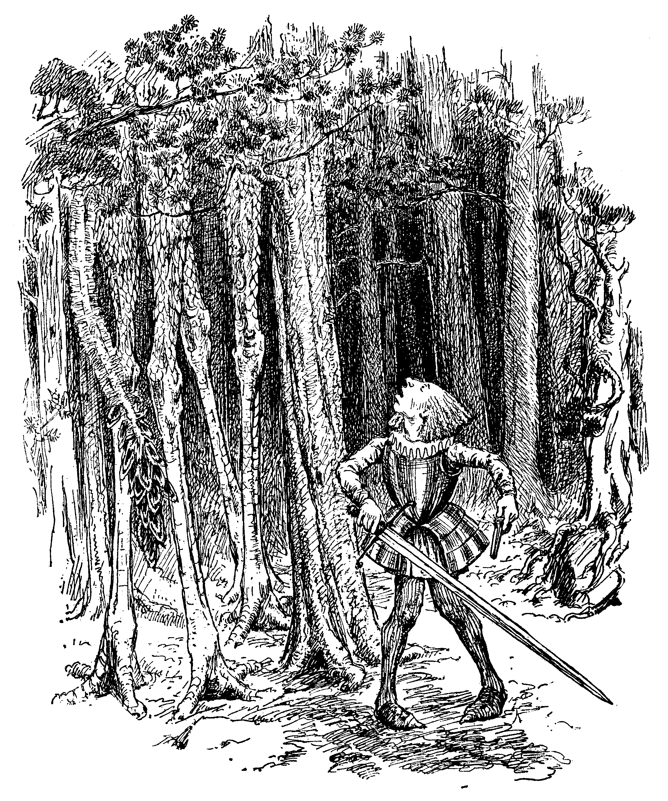 Image of the Bandersnatch from Anna Richards' 1895 A New Alice in the Old Wonderland.